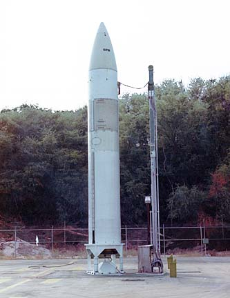 STARS rocket (modified Polaris A3 missile) at the Kauai Test Facility Original Description: PHOTO PROVIDED BY THE NAVY A Strategic Target System missile sits on its "launch stool" at the Pacific Missile Range on Kauai.